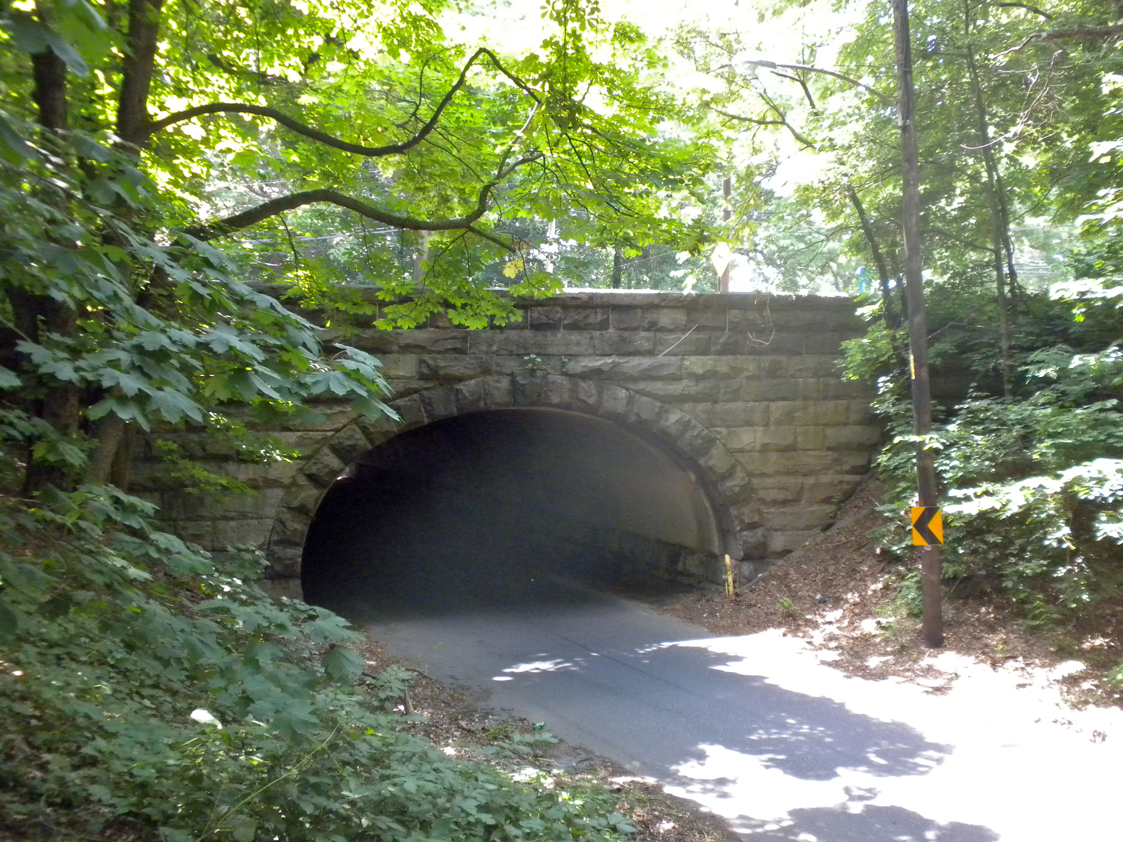 Belmont Avenue Bridge in Philadelphia on NRHP since June 22, 1988. Belmont Avenue over Ramp B (Chamounix Drive) at edge of Fairmount Park in West Philly. See also Belmont Bridge interior.JPG and Belmont Bridge.JPG